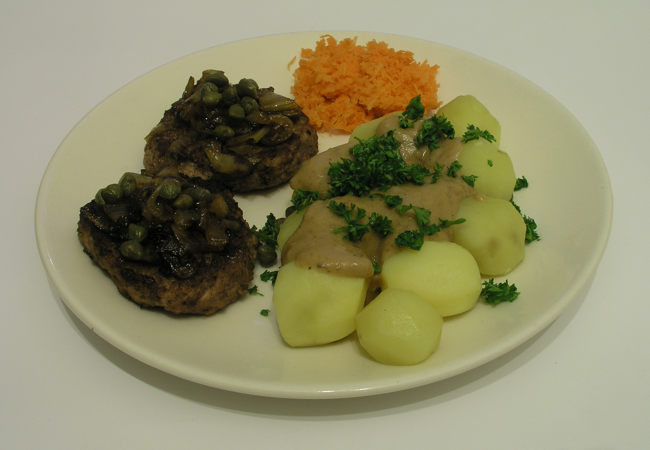 Minced meat steaks as eaten in Denmark with potatoes, gravy sauce and slowly roasted "soft" onions. Additionally with carrot salad and capers